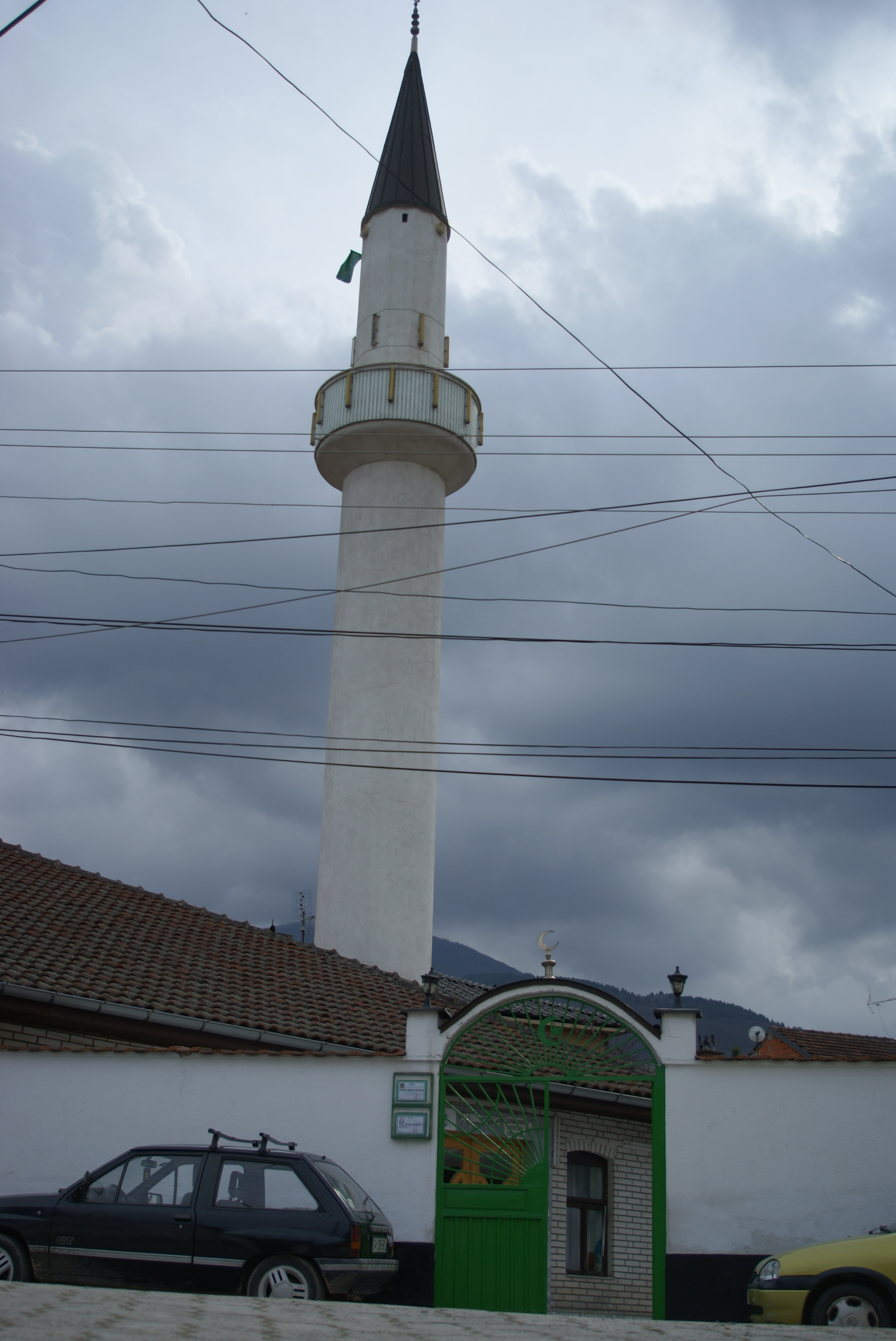 Xhamia e Haxhi Kasemit